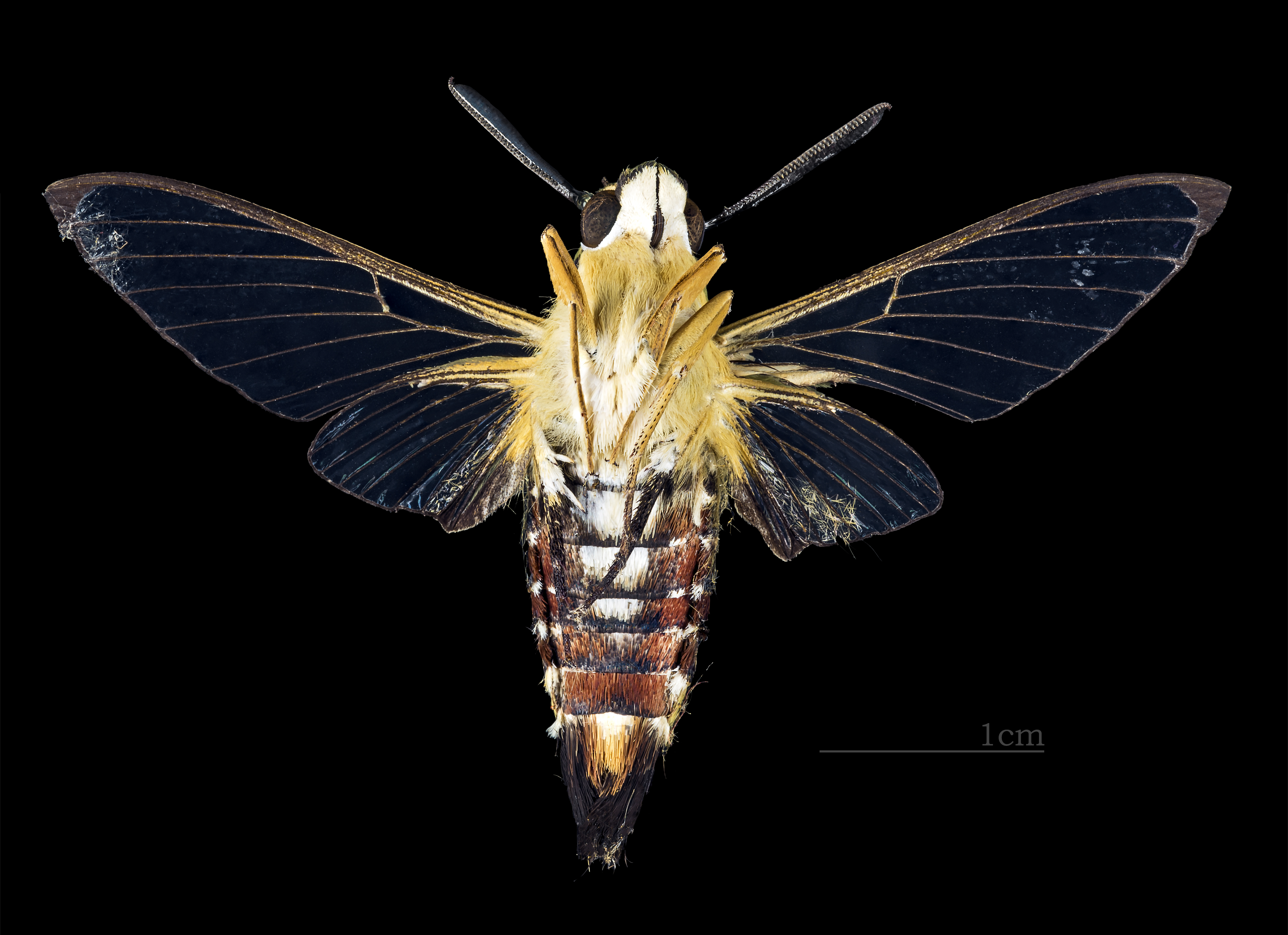 Cephonodes picus - △ Ventral side